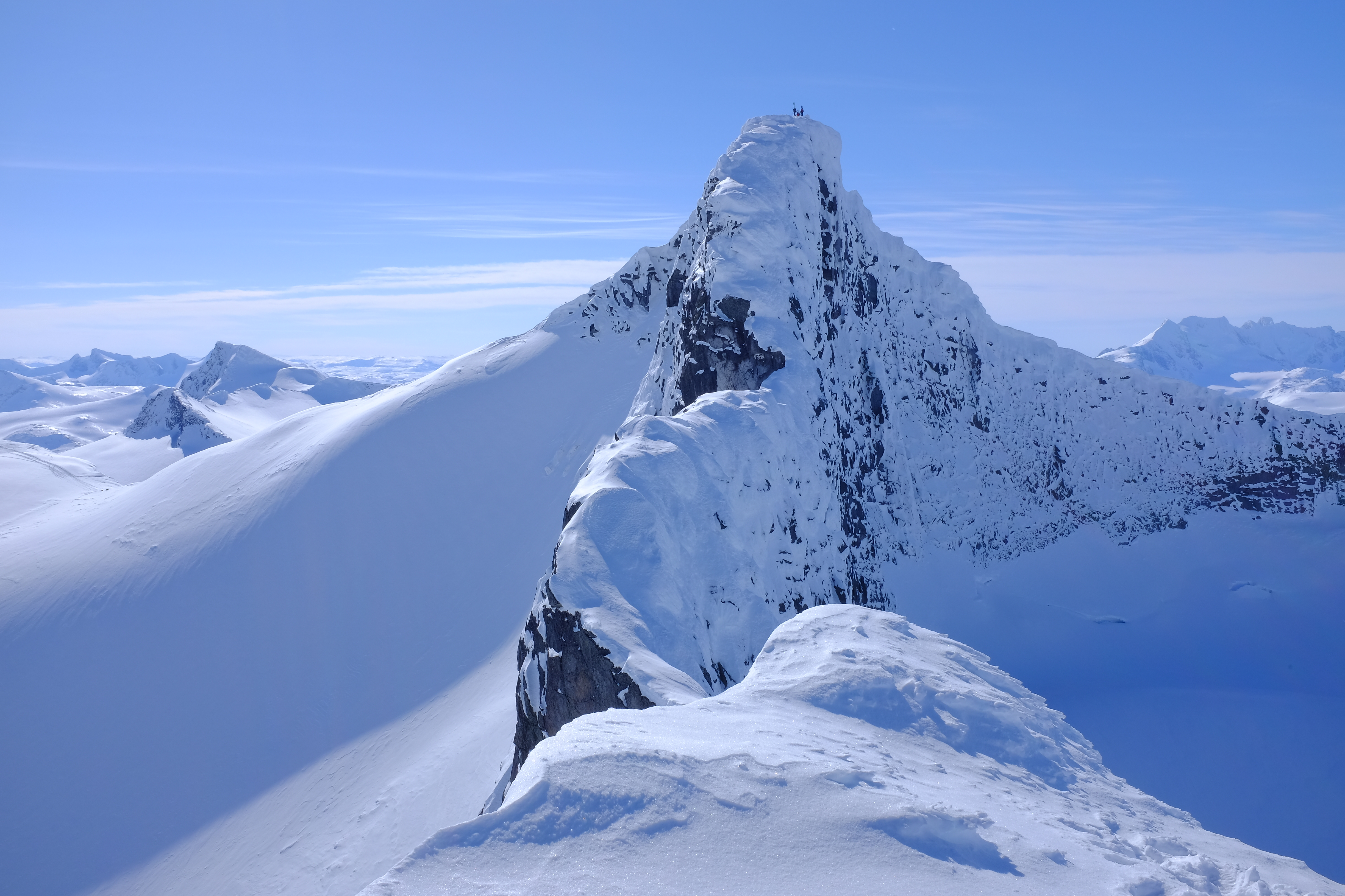 Veslebjørn mountain seen from Bjørnungen in Jotunheimen Nasjonal Park, Lom, Oppland, Norway. "Veslebjørn" means literally "little bear".